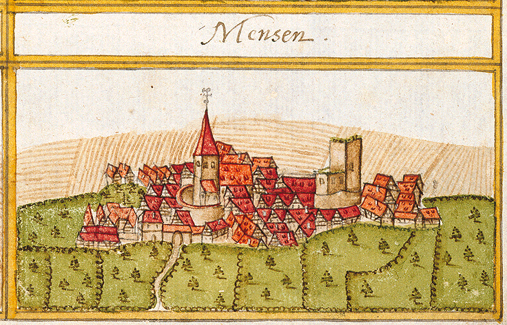 View of Mönsheim from the forest register books created by Andreas Kieser